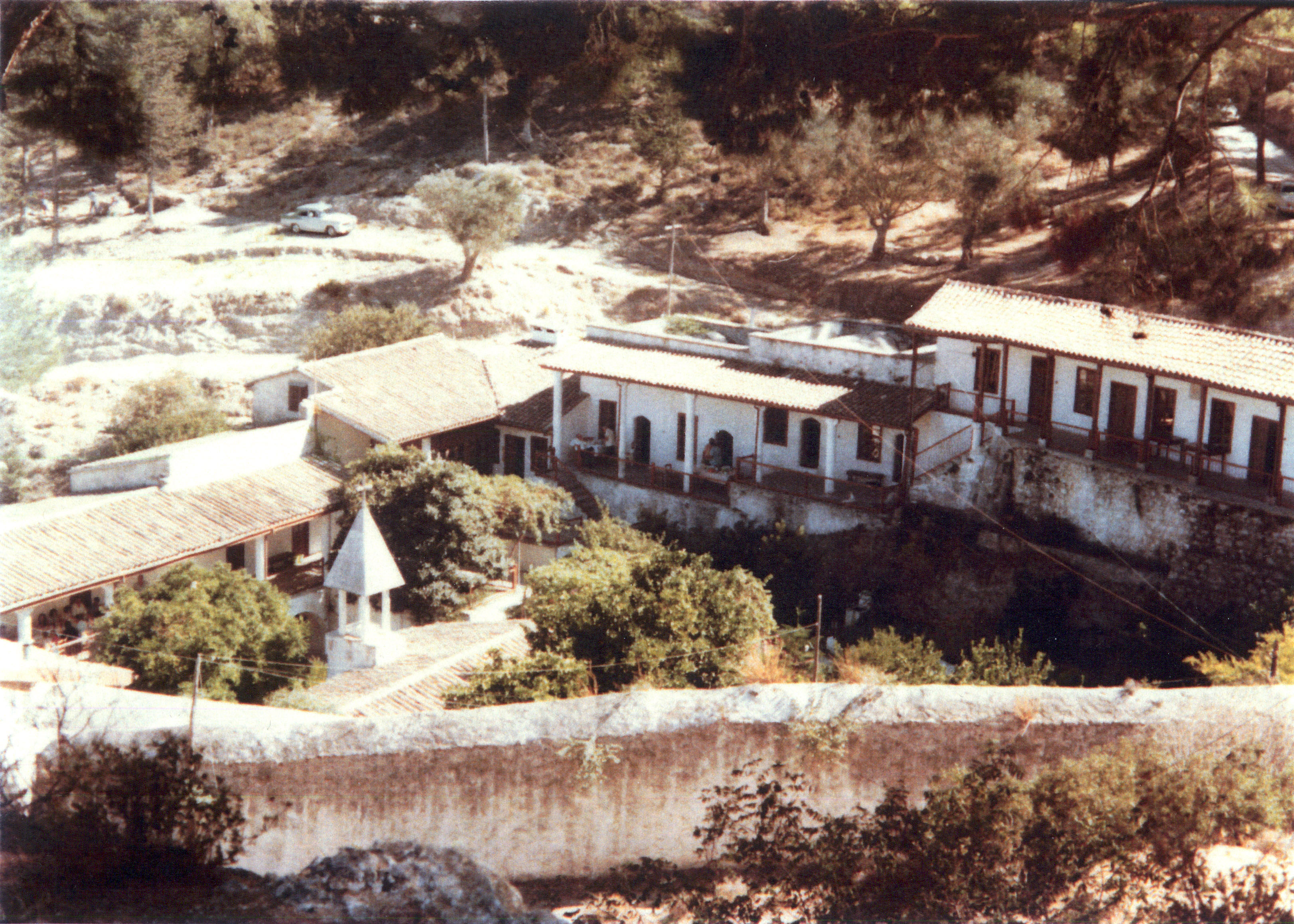 The Magaravank in 1970